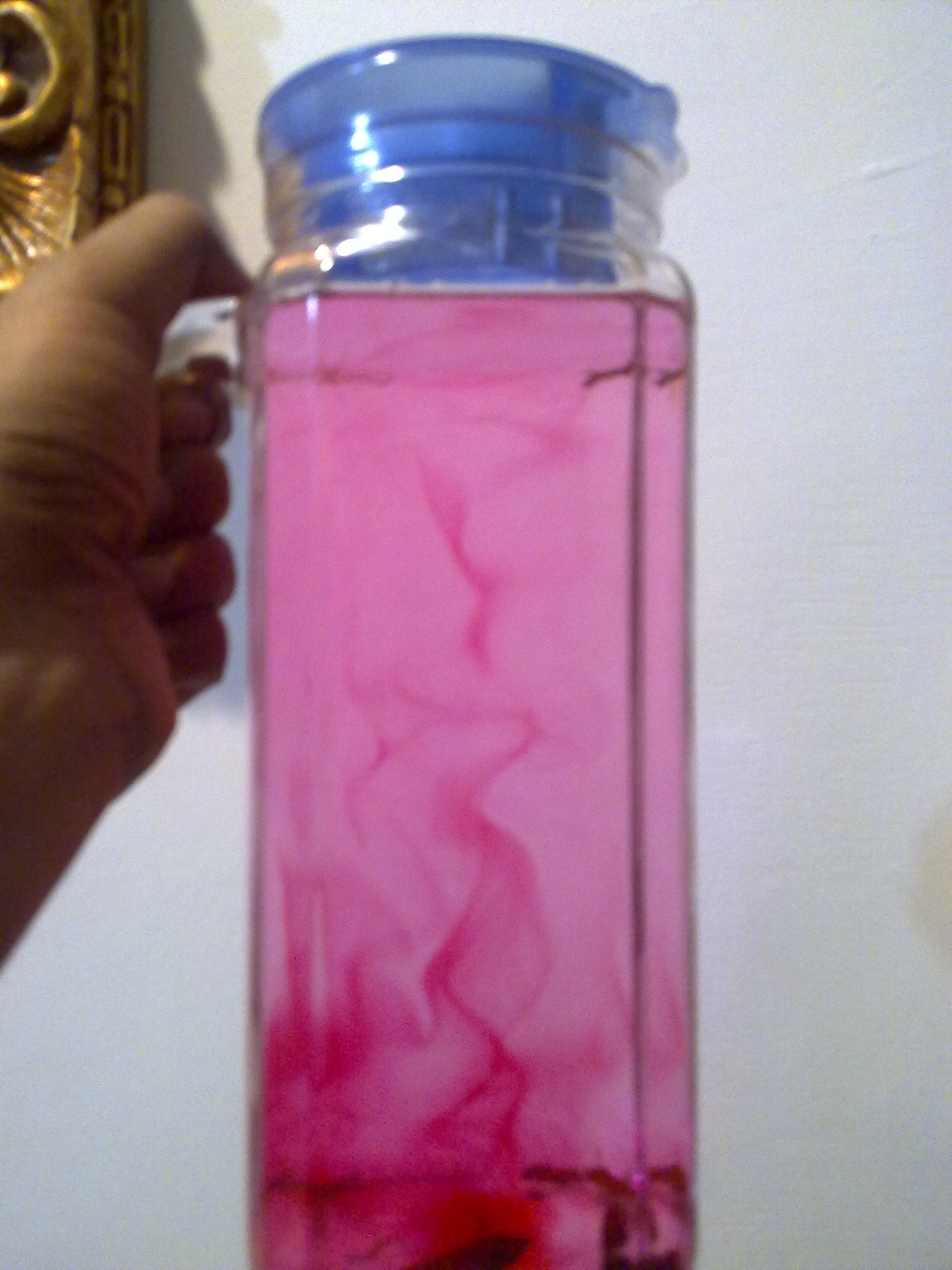 This media file is uploaded with Malayalam loves Wikimedia event - 3.